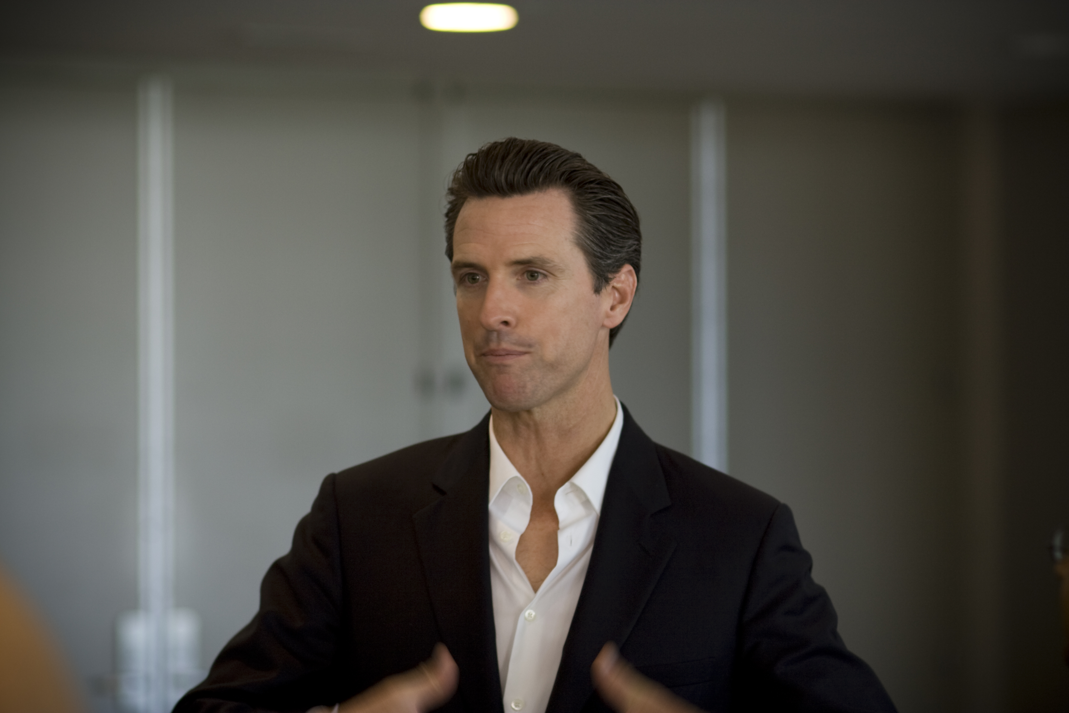 080719_NetrootsNation_0414